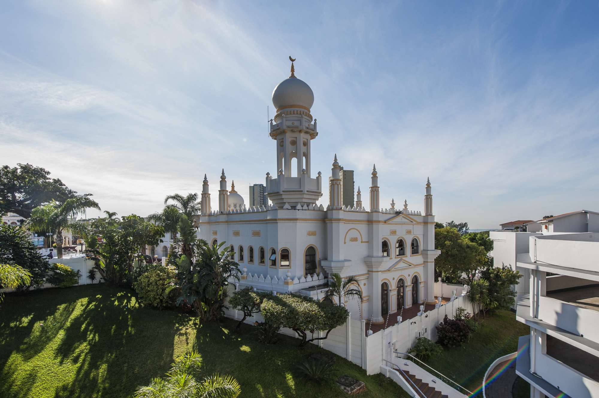 This is a photograph of the Habibia Soofie Saheb Mosque located at Riverside, Durban North in South Africa.